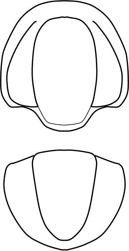 A drawing of Bathydiscus dolichometopus, a trilobite of the Agnostida order, Weymouthiidae family, upper Lower Cambrian (Acimetopus bilobatus faunule), New York (Griswold Farm), cephalon after holotype.